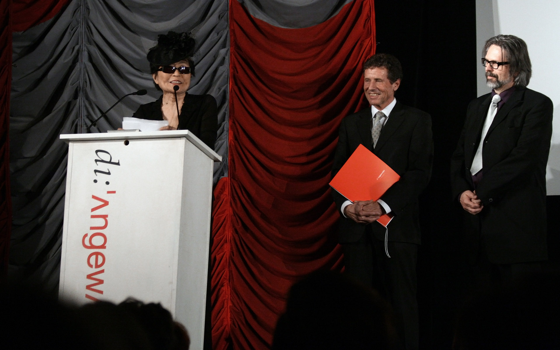 Yoko Ono at the ceremony of the Oskar Kokoschka Award 2012 at the Gartenbaukino in Vienna, with Karlheinz Töchterle and Gerald Bast.